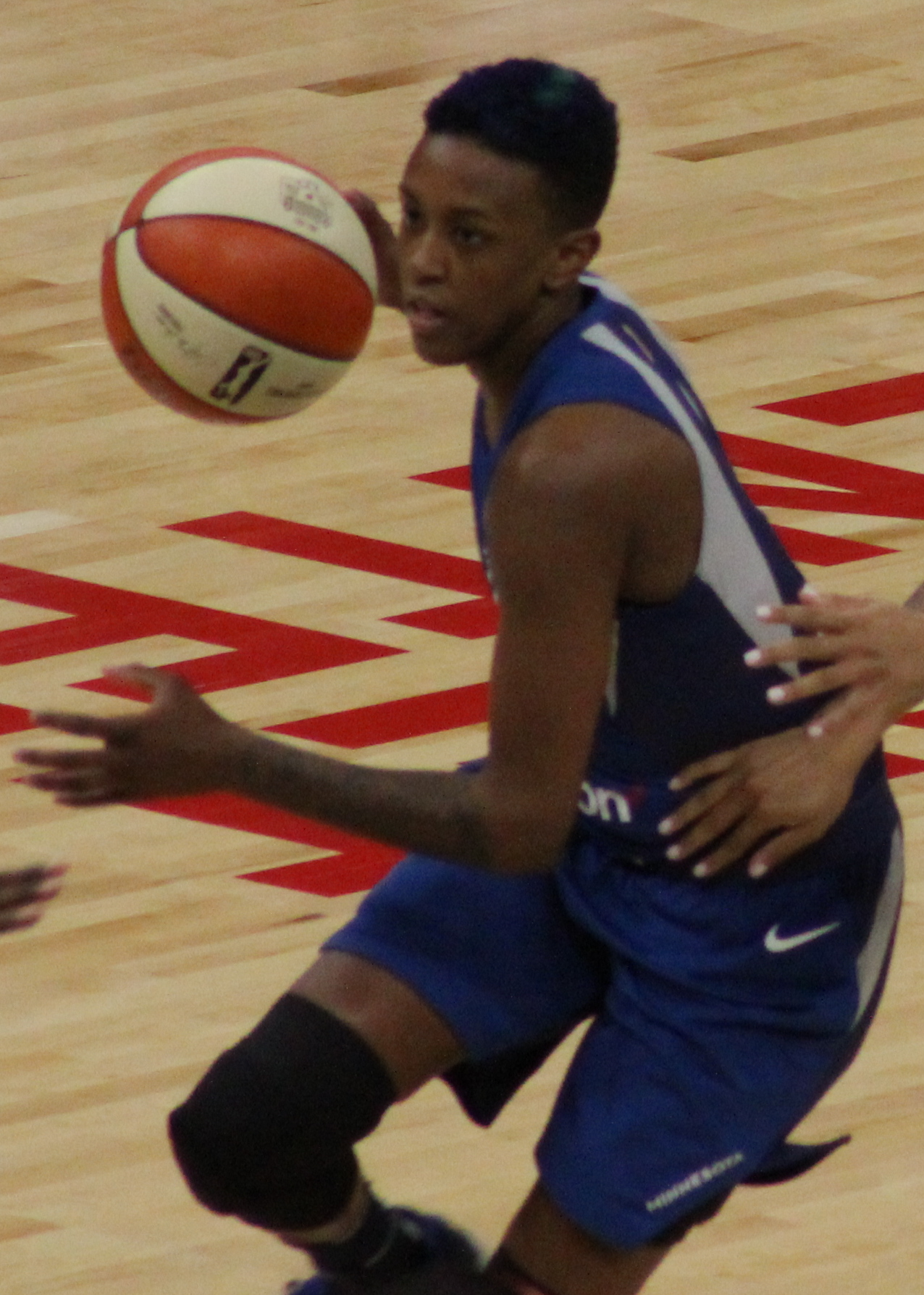 Danielle Robinson of the Minnesota Lynx in 2018